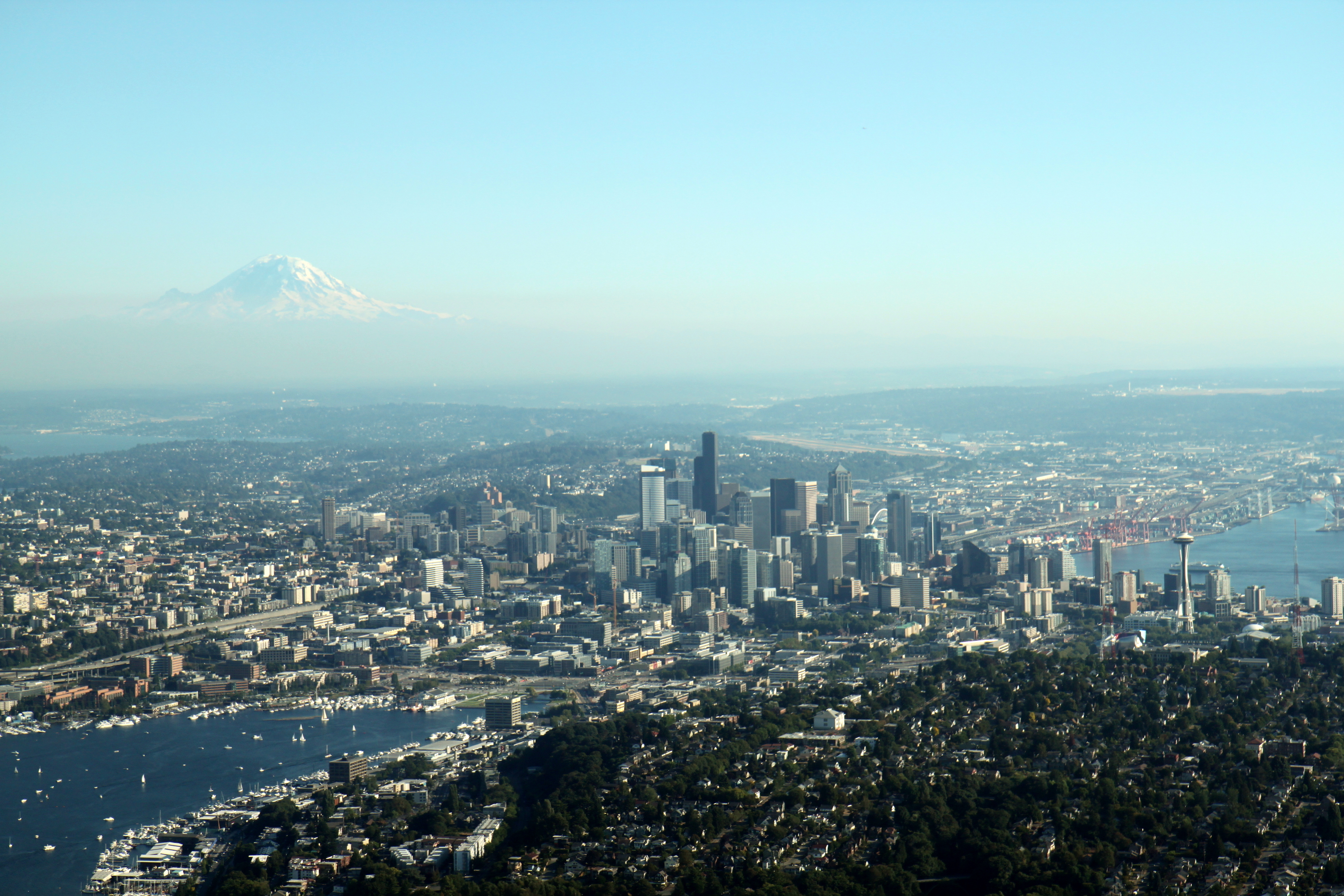 Downtown Seattle, Space Needle, Lake Union, and Mt Rainier